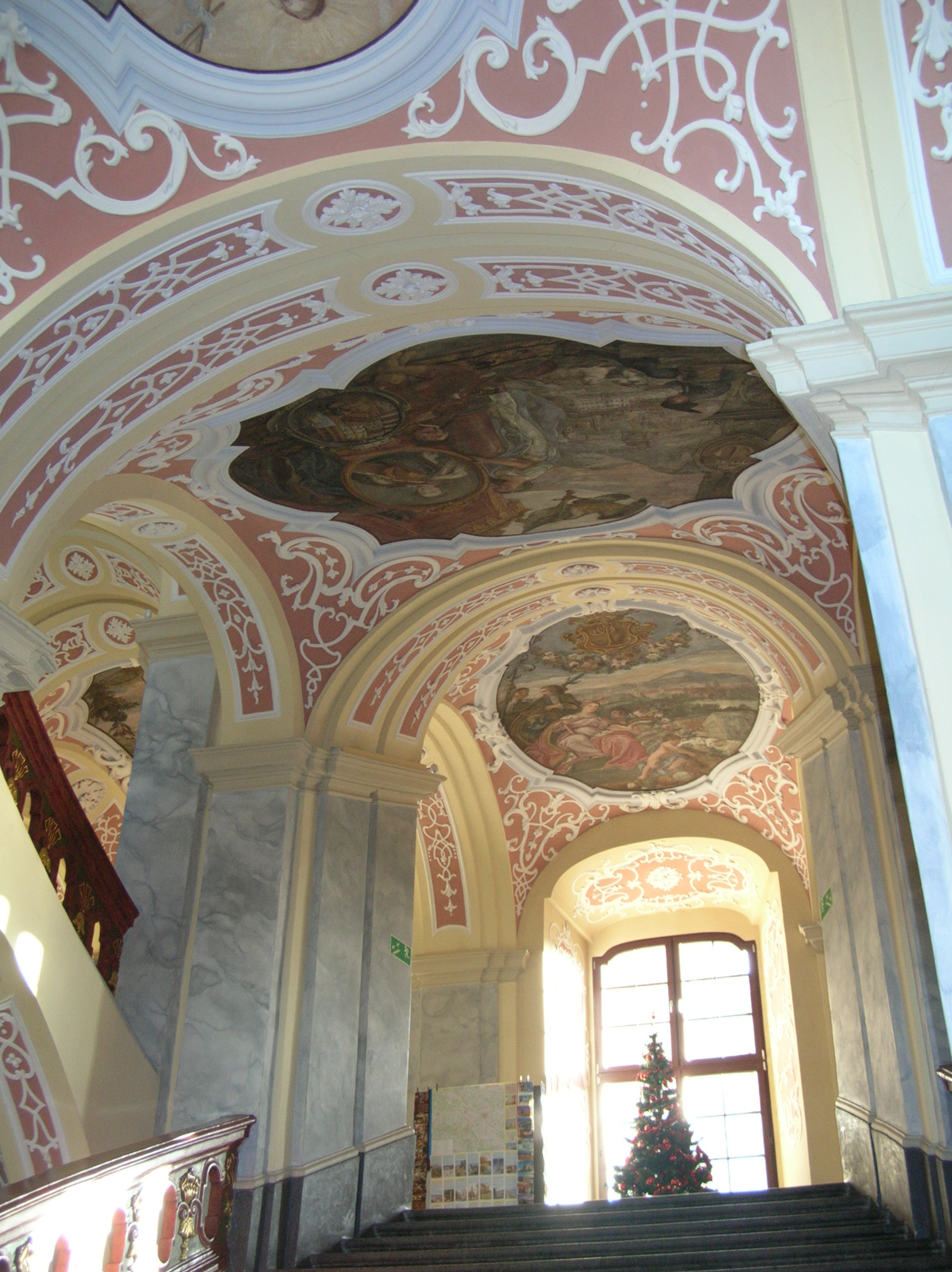 The_staircase_of_the_Wrocław_Uniwersity